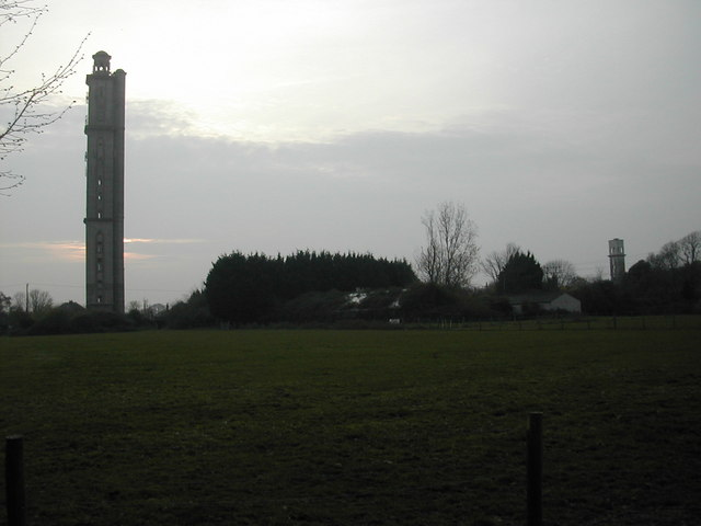 The two towers in Sway The smaller tower to the north is alleged to be a sucker growth of the taller one! Others say it was built as a prototype for the full-grown tower.